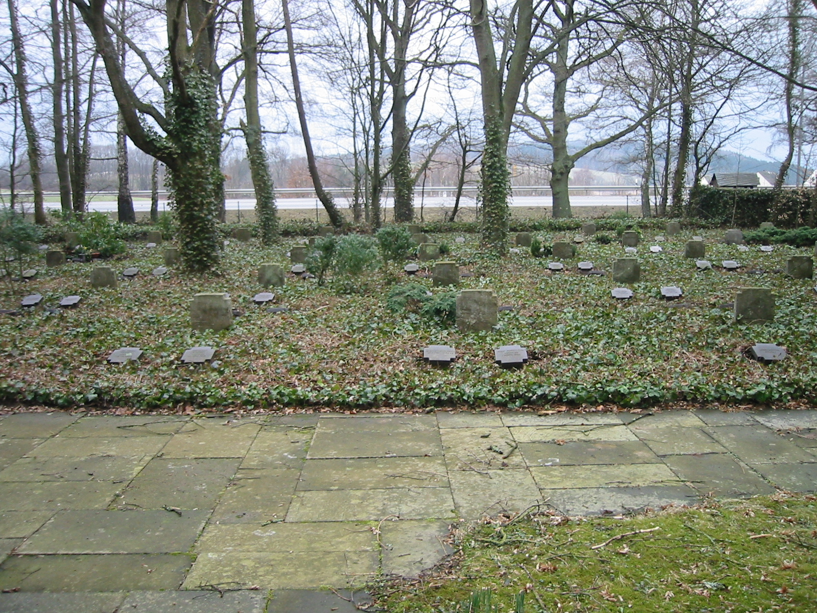 View on part of second world war cemetery next to Pfaffenheck on the lower Hunsrueck mountains. Burried are nearly 100 soldiers of 66. SS-Gebirgs-Division who died on march 14.-17. 1945 in combat against US-soldiers of 357th Inf. Reg.